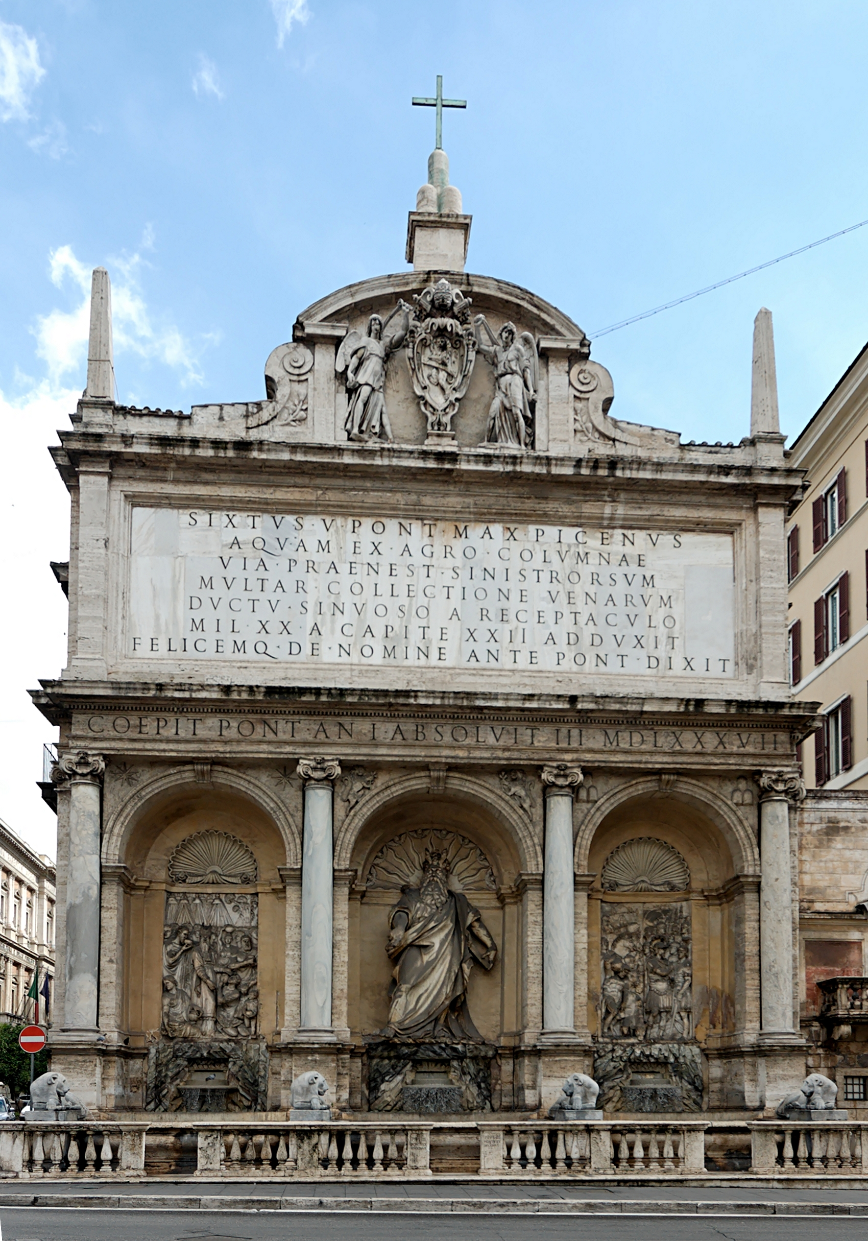 Acqua Felice fountain (16th century), via V.E. Orlando in Rome.